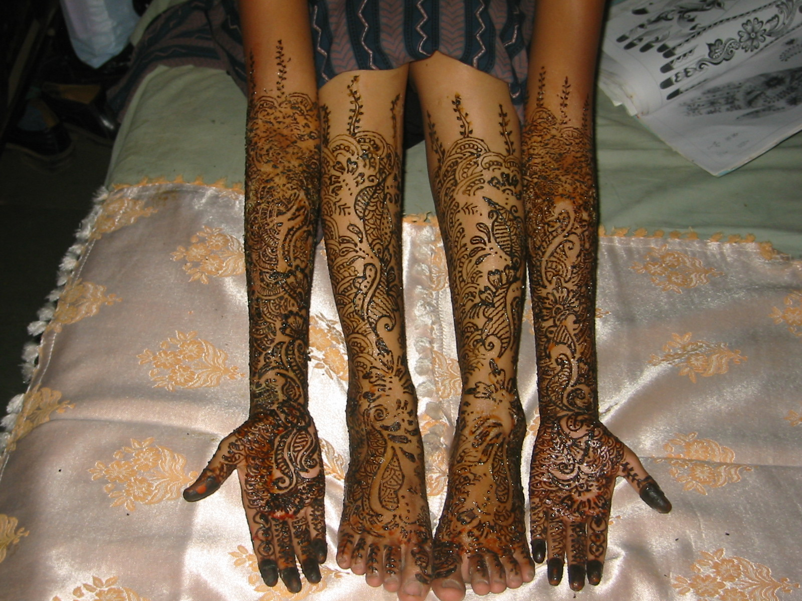 Mehndi on arms and legs, Gujarat, India.